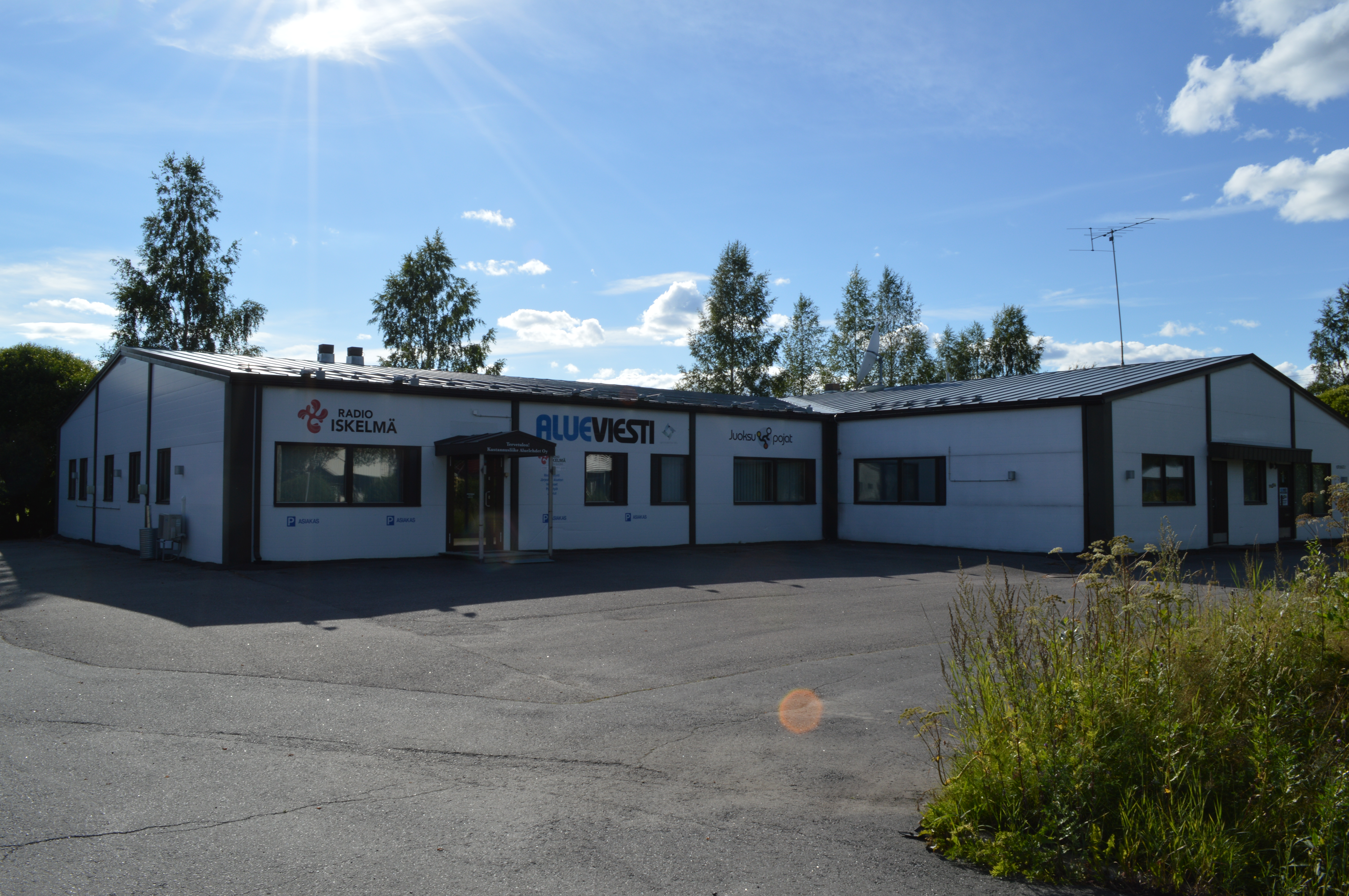 Office of Aluelehdet